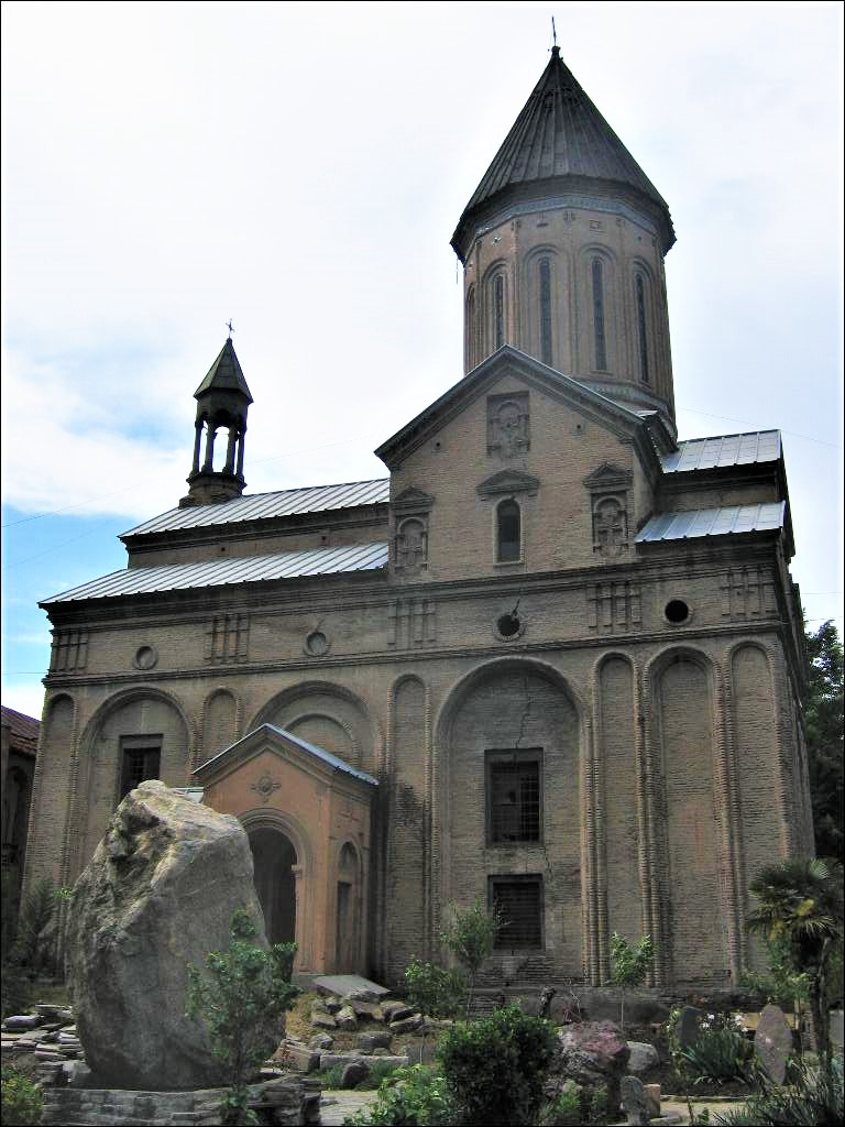 15th century Armenian church of Norashen (Saint Mariam) in Tbilisi, Georgia.